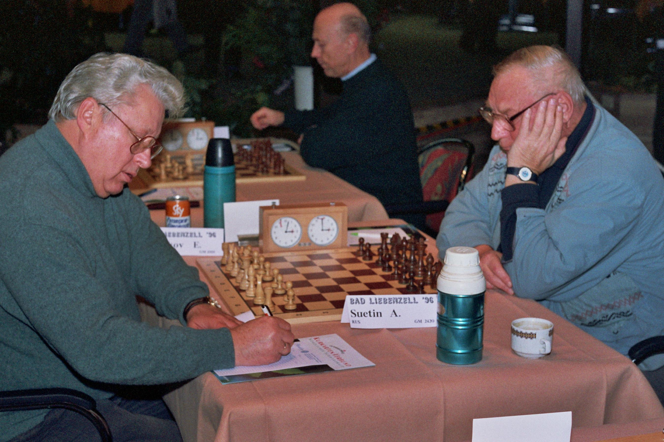 Evgeny Vasiukov - Alexey Suetin, Senior Chess World Championship 1996 at Bad Liebenzell, Photographer Gerhard Hund.